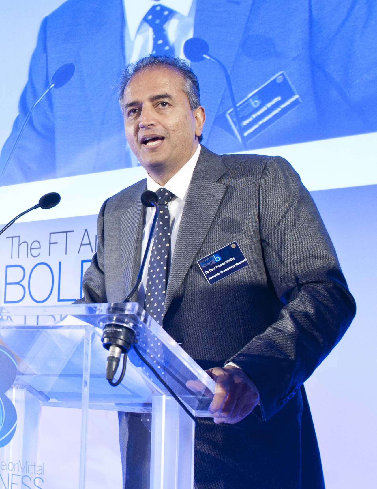 Dr Devi Prasad Shetty at FT ArcelorMittal Boldness in Business Awards 2013